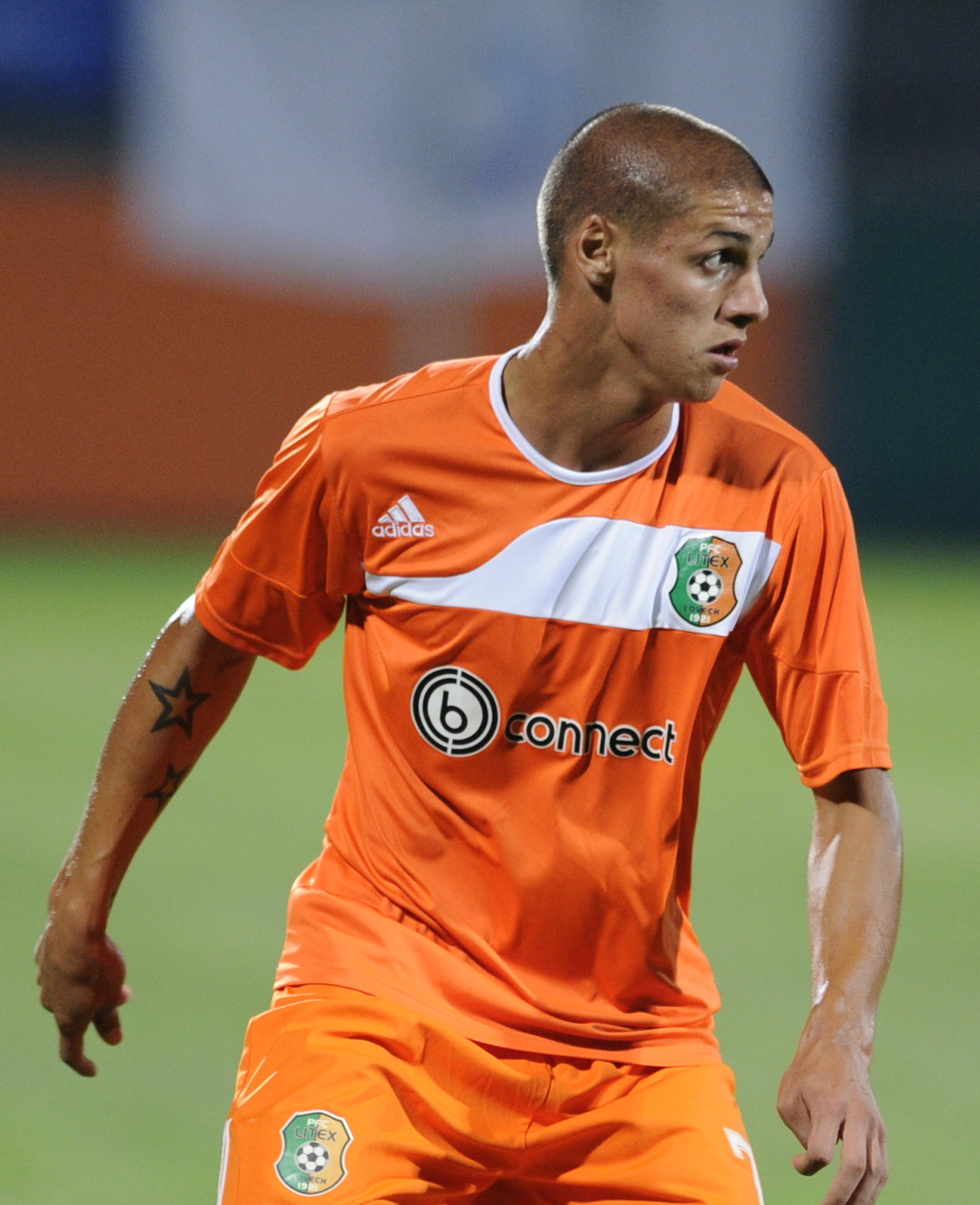 Kiril Despodov